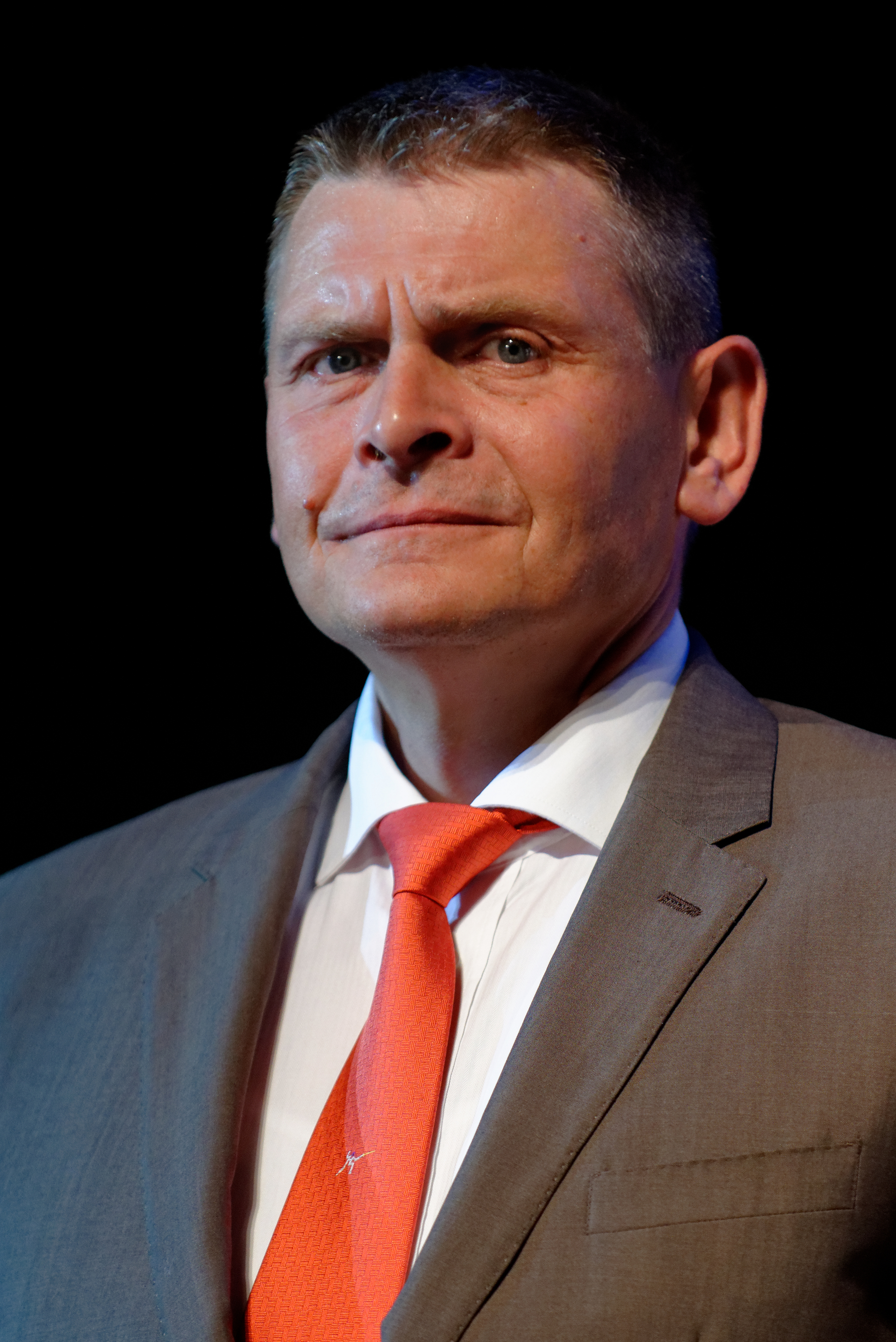 František Janda, president of the European Fencing Confederation, stands at award ceremony for men's épée in the European Fencing Championships at Rhénus Sport in Strasbourg on 7 June 2014.